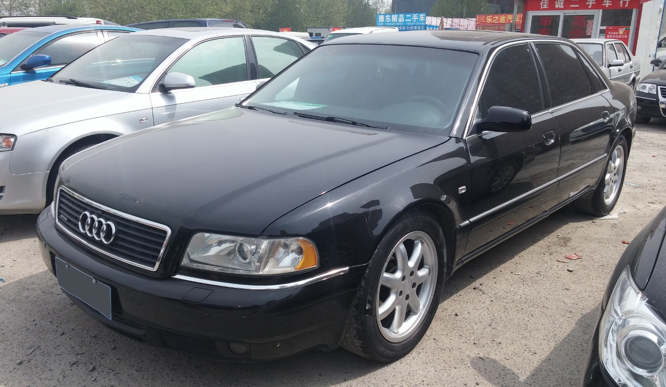 Audi A8L D2 photographed in Zhengzhou, Henan province, China.